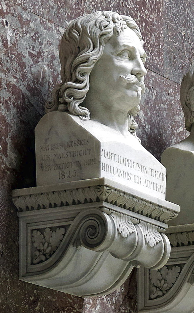 Portrait bust of admiral Maarten Harpertsz Tromp by Mathieu Kessels (1824), Walhalla , Regensburg